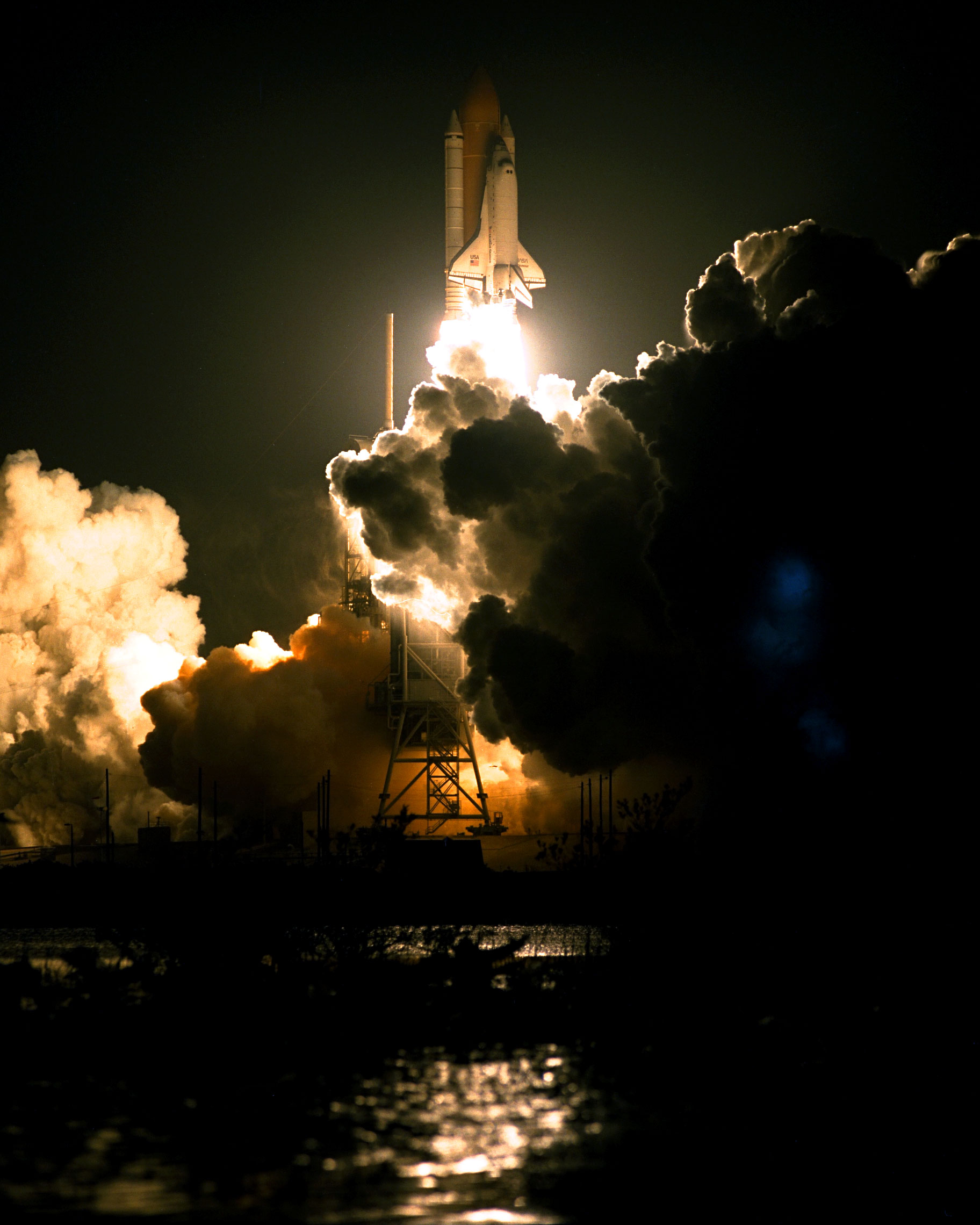 The Space Shuttle Endeavour cuts a bright swath through the dark sky as it blazes a trail toward the Russian Space Station Mir. Endeavour lifted off successfully at its scheduled time of 9:48:15 EST on Jan. 22 from Pad 39A. STS-89 is the eighth docking with the Russian Space Station Mir, the first Mir docking for Endeavour (all previous dockings were made by Atlantis), and the first launch of 1998. After docking with Mir, Mission Specialist Andrew Thomas, Ph.D., will transfer to the space station, succeeding David Wolf, M.D., who will return to Earth aboard Endeavour. Dr. Thomas will live and work on Mir until June.